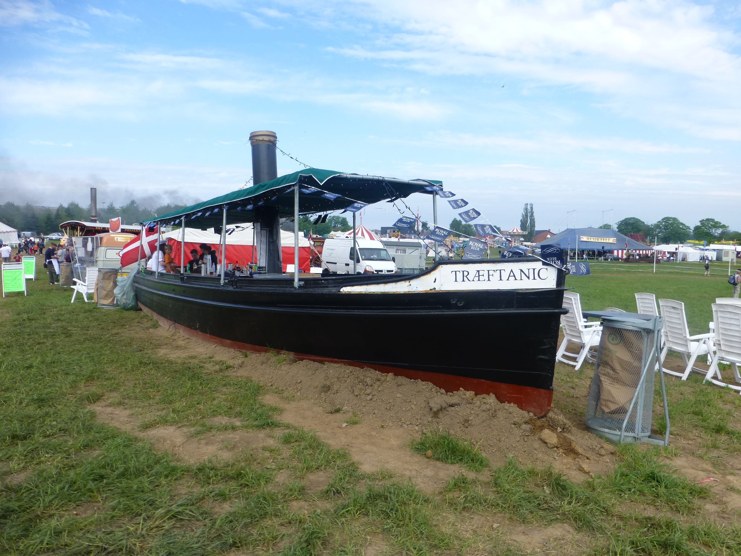 The bar Træftanic at the heritage fair Græsted Veterantræf in Denmark.